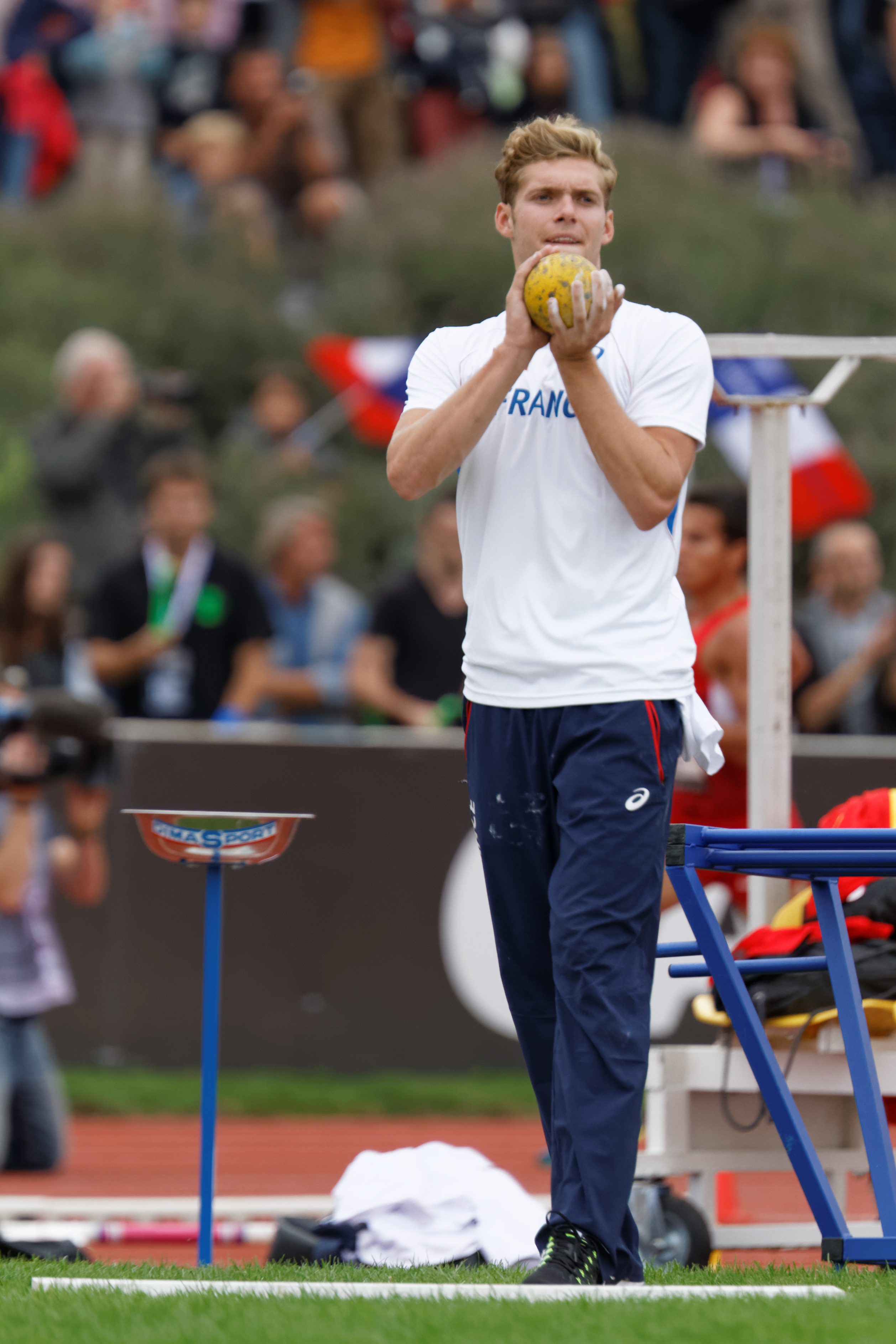 DécaNation 2014. Shot put. Gaëtan Bucki.